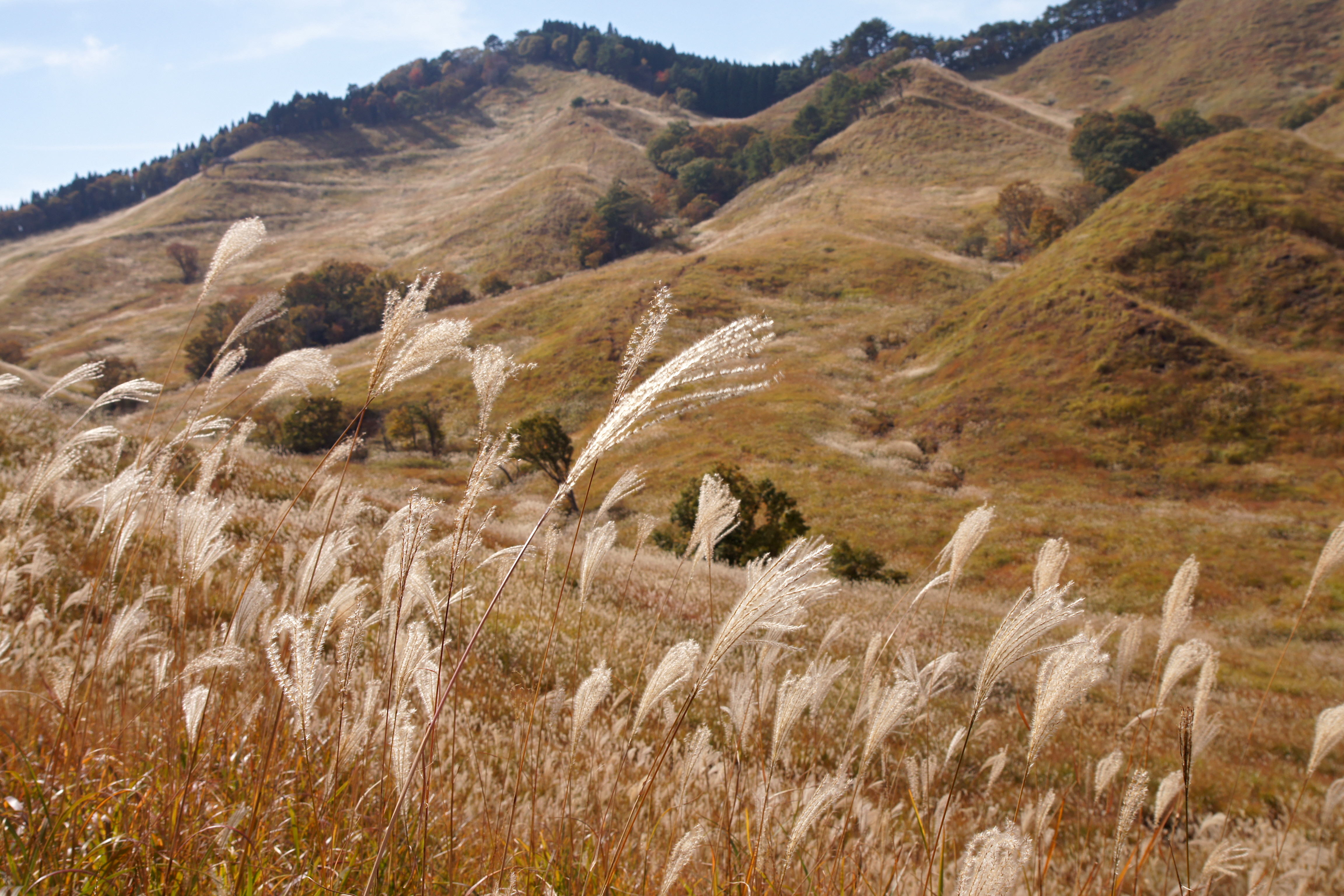 Tonomine highlands in Kamikawa, Hyogo prefecture, Japan.